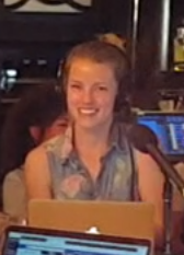 Judith Lussier photographed in Montréal , Québec, Canada during a live broadcast of the French CBC's radio show of La soirée est encore jeune of Ici Première.